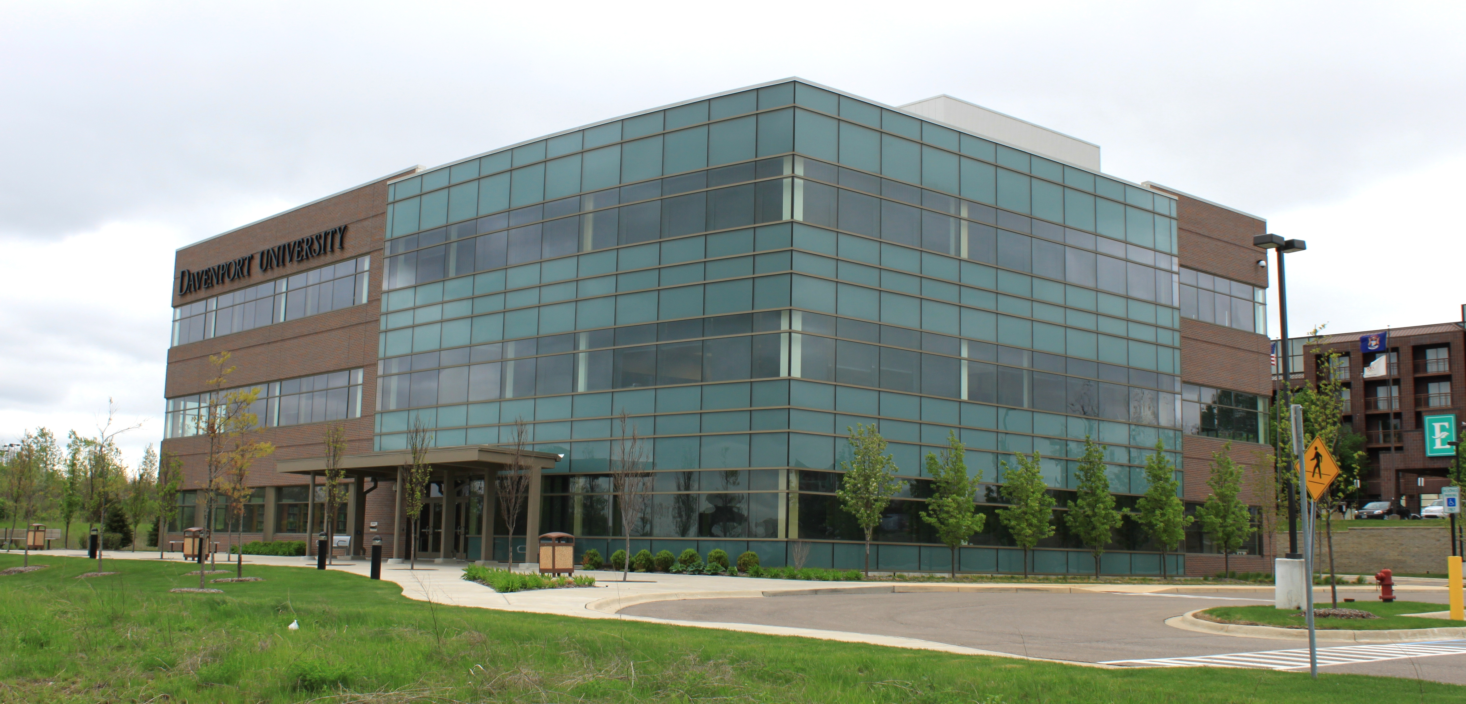 Davenport University Livonia campus, 19499 Victor Parkway, Livonia, Michigan.